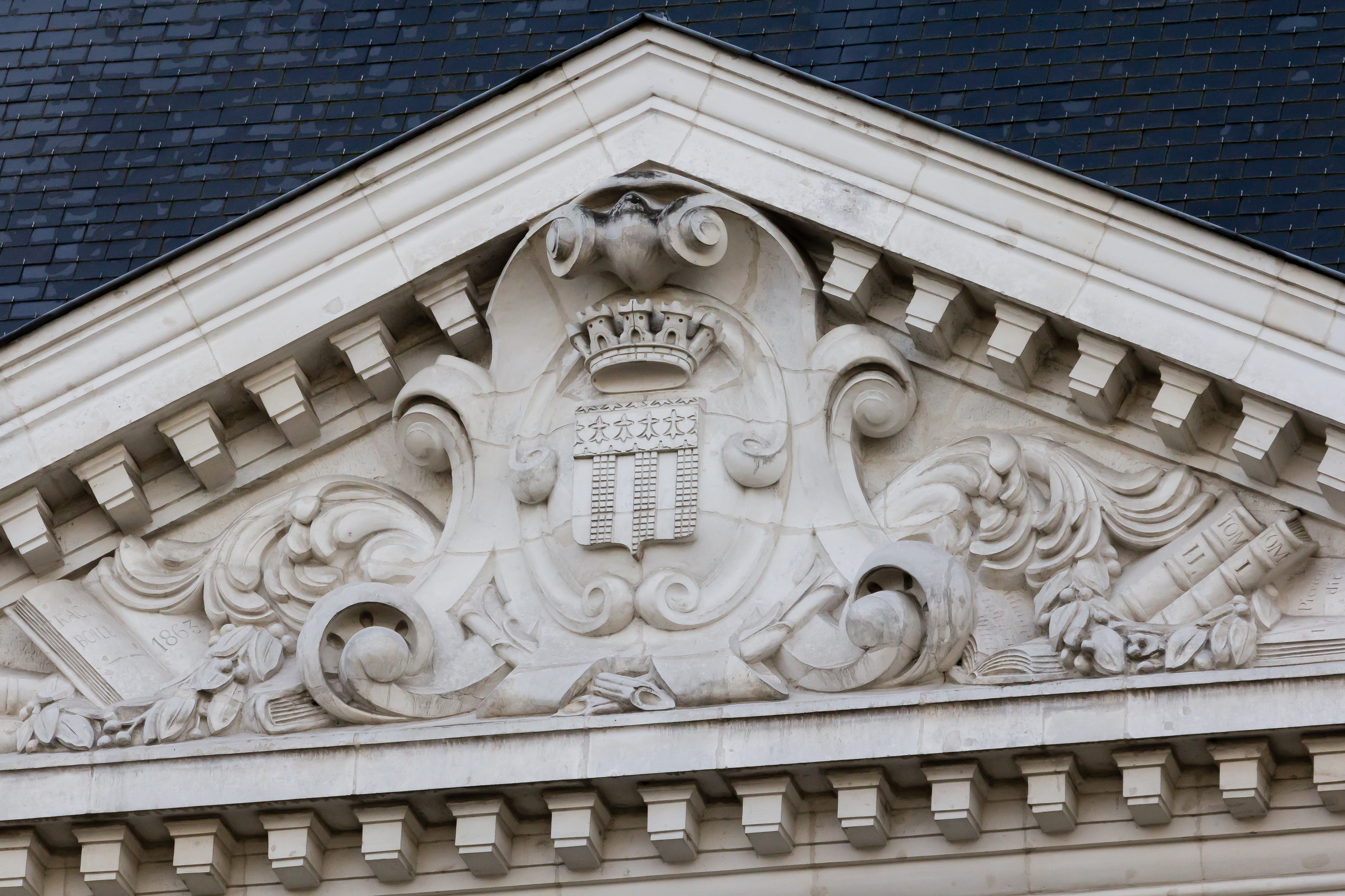 Pediment of the northern pavilion of the facade of the Émile Zola high school in Rennes.